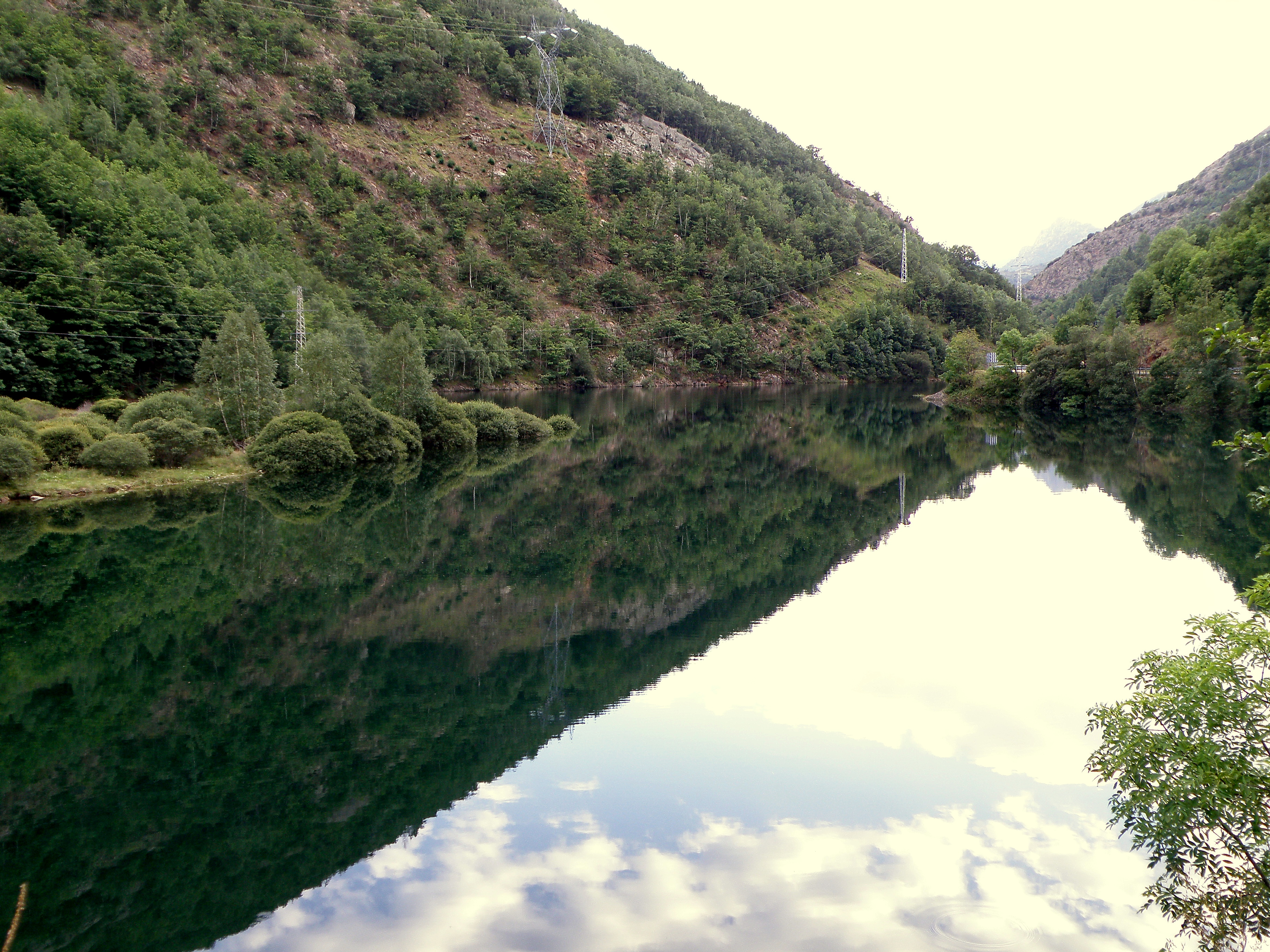 Tavascan reservoir seen from the southern end of the village